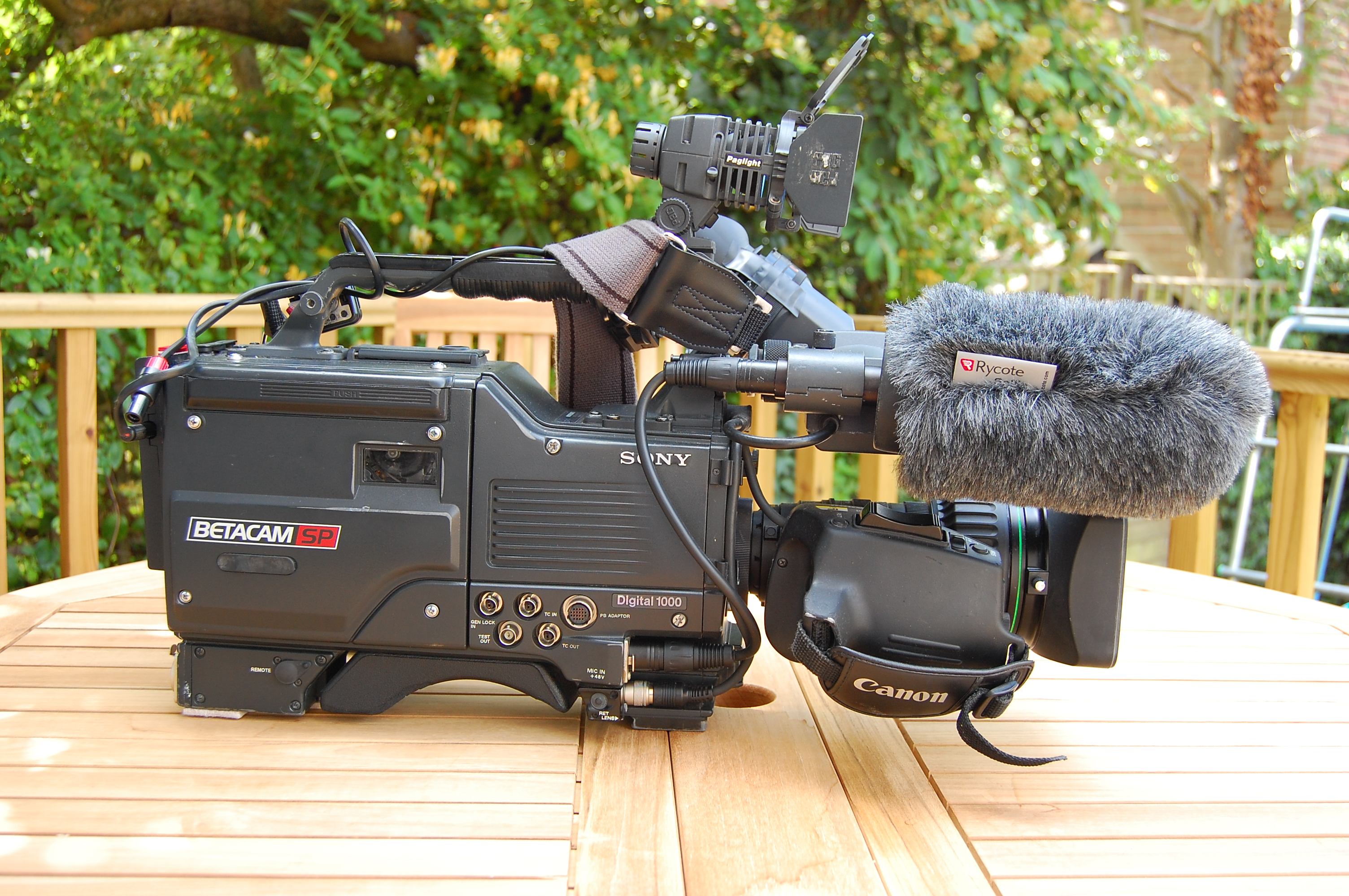 Sony Betacam SP BVW-D600P camcorder with C6 Paglight and Rycote Softie